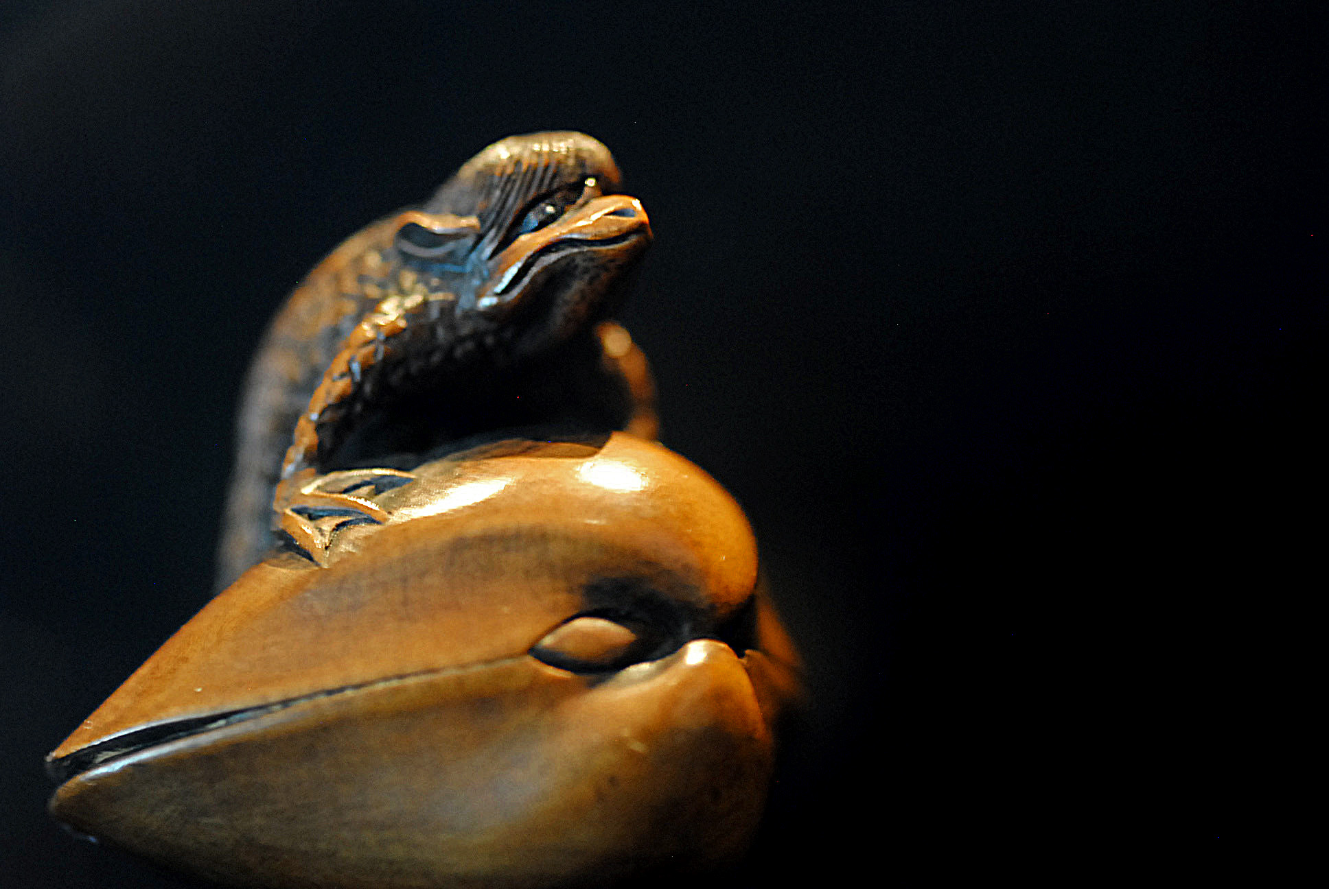 Japanese Wood Netsuke. Kappa sitting on a sea shell. This is from the collections at the Museum of Ethnography, Stockholm but it has been on display in the Museum of Far Eastern Antiquities (Östasiatiska museet) since 2011 This is a photo of an artwork at the Museum of Ethnography in Sweden with the identifier: netsuke: 1936.21.0002